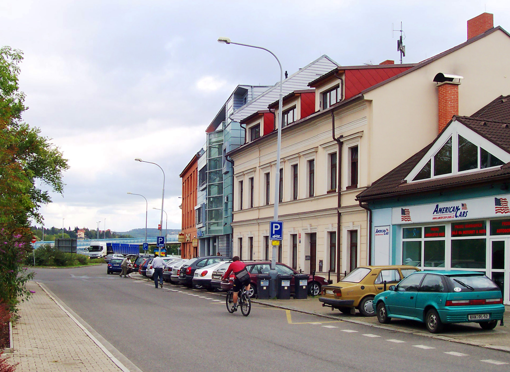 Zbraslavská street in Malá Chuchle, Prague